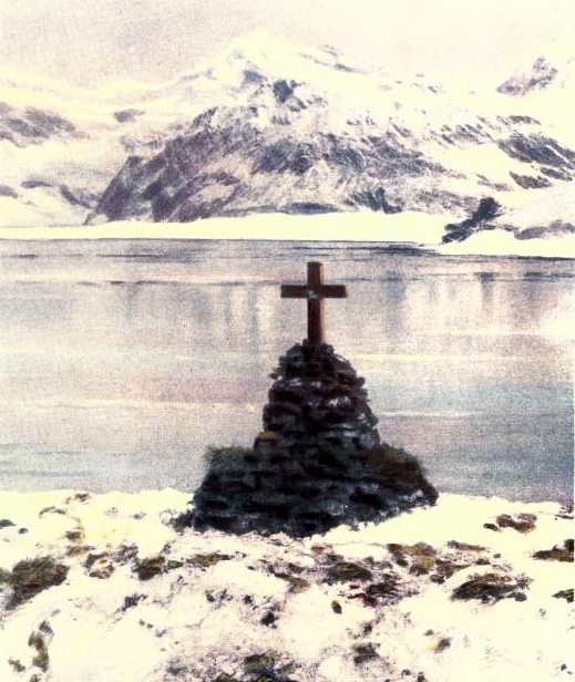 The cairn that was erected in memory of Sir Ernest Shackleton in Grytviken (South Georgia)